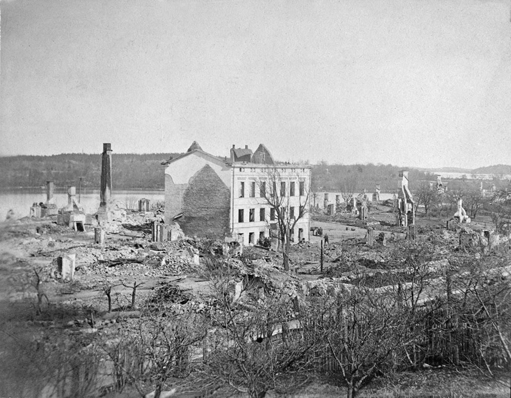 Strängnäs after the fire in 1871. Format: Albumen print